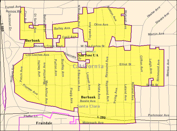 The Burbank CDP was defined for the 2000 Census; its boundaries are likely to change for the 2010 Census, since some of it has been annexed into the City of San Jose during the decade.